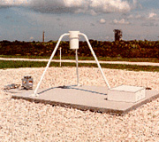 A Kennedy Space Center Field Mill site